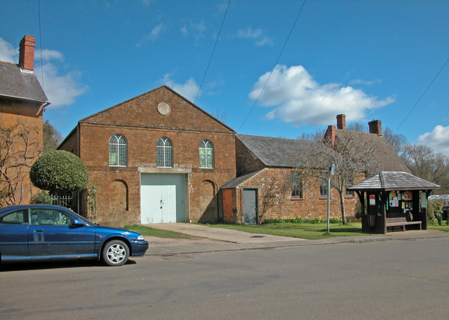 Cross Hill Road, Adderbury, Oxfordshire. On the left is the former Independent Chapel, built in 1820 and now private premises.